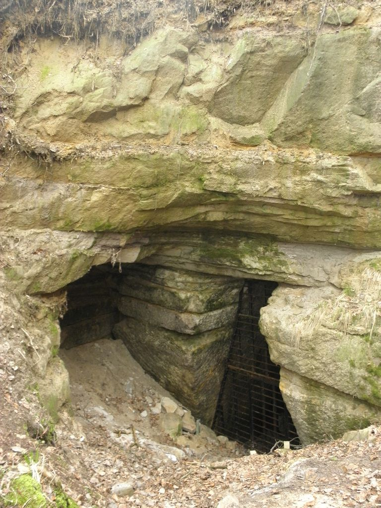 Natural monument Skalice u České Lípy, Czech Republic